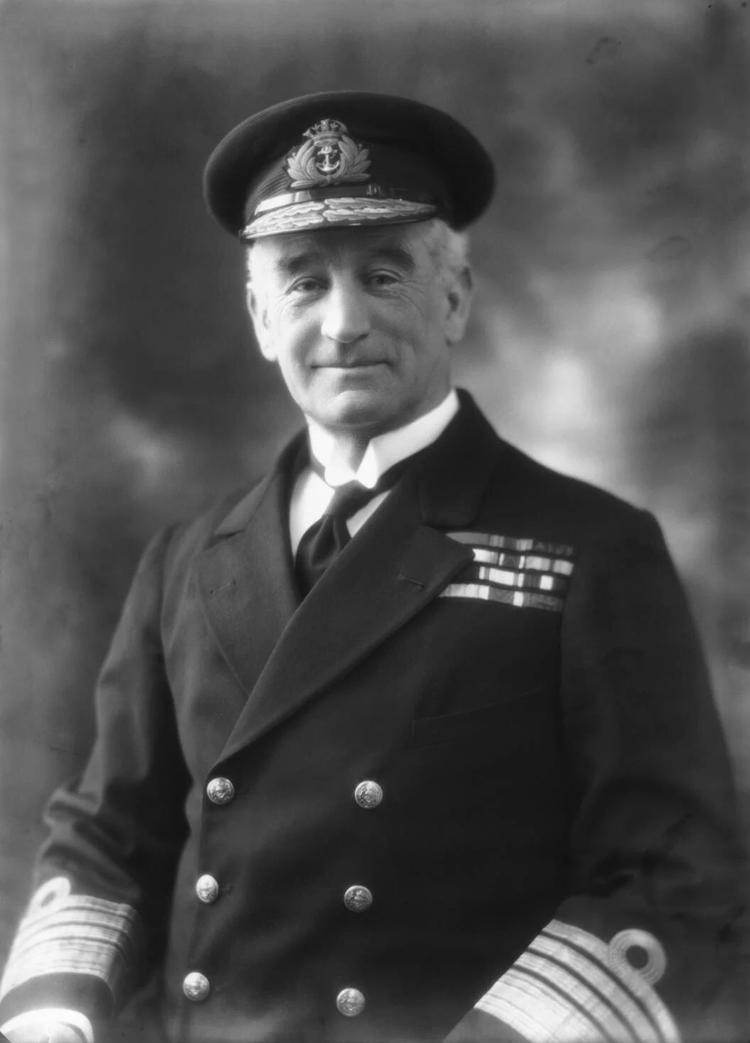 Portrait of John Michael de Robeck